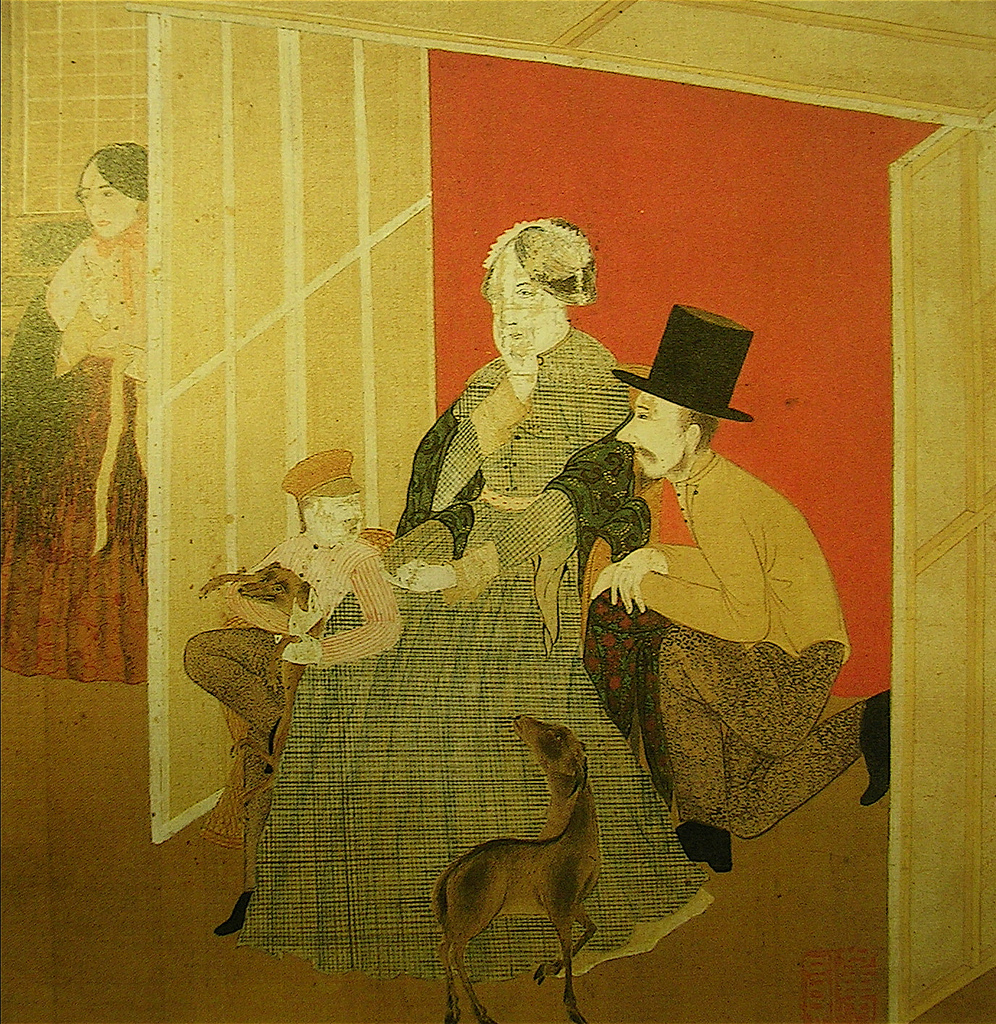 Horanda Fūzoku (Dutch Genre Scene). Hanging scroll, colour on silk, 33.7 × 33 cm, Museum of Tokio National University of Art and Music.